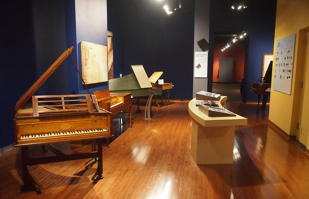 Schubert Club Museum of Musical Instruments, Landmark Center, 75 5th St W, St Paul, Minnesota, USA.